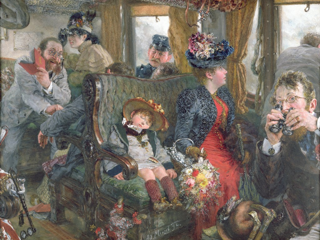 People in a first class railway compartment